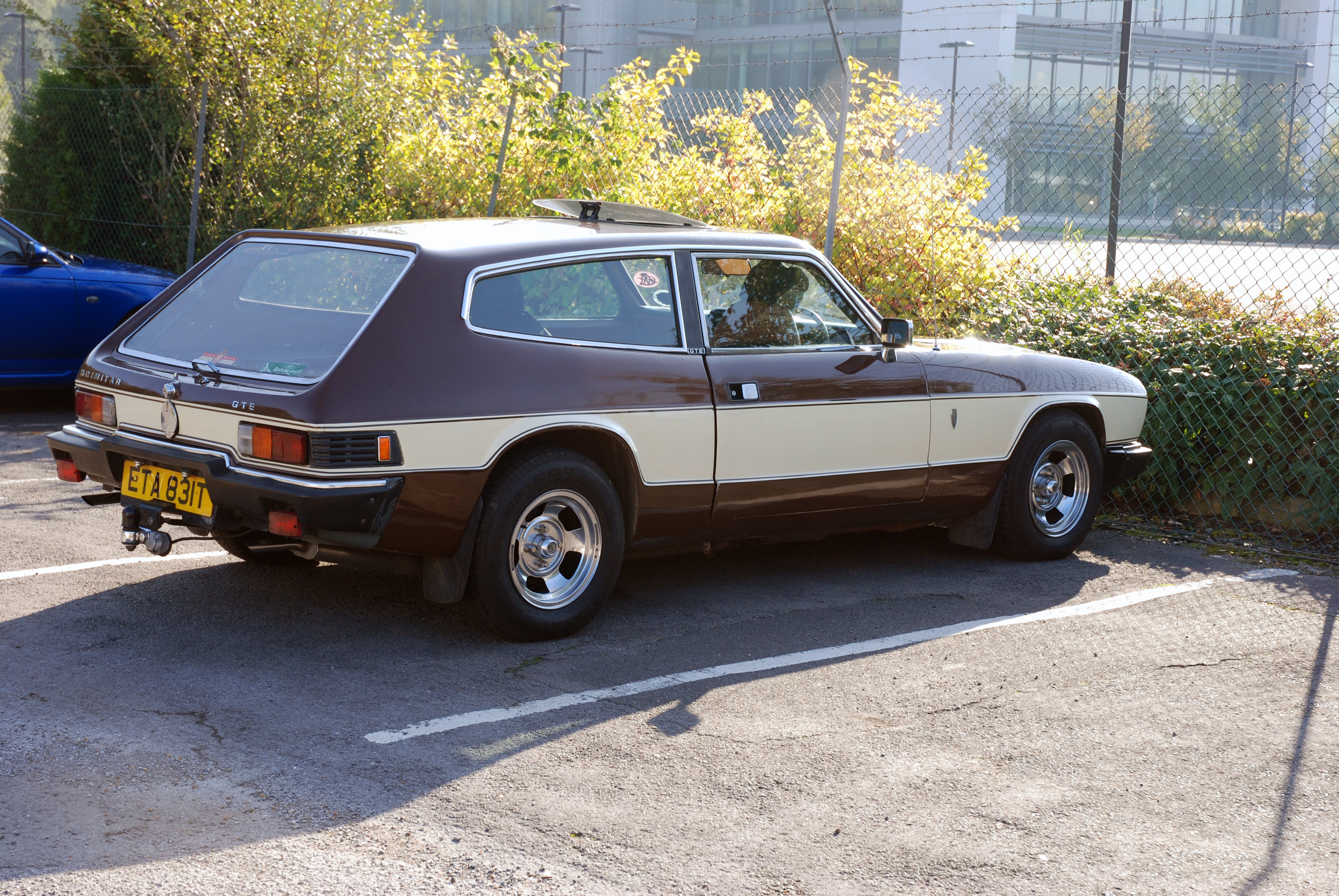 Brooklands Oct 2007,in the car park